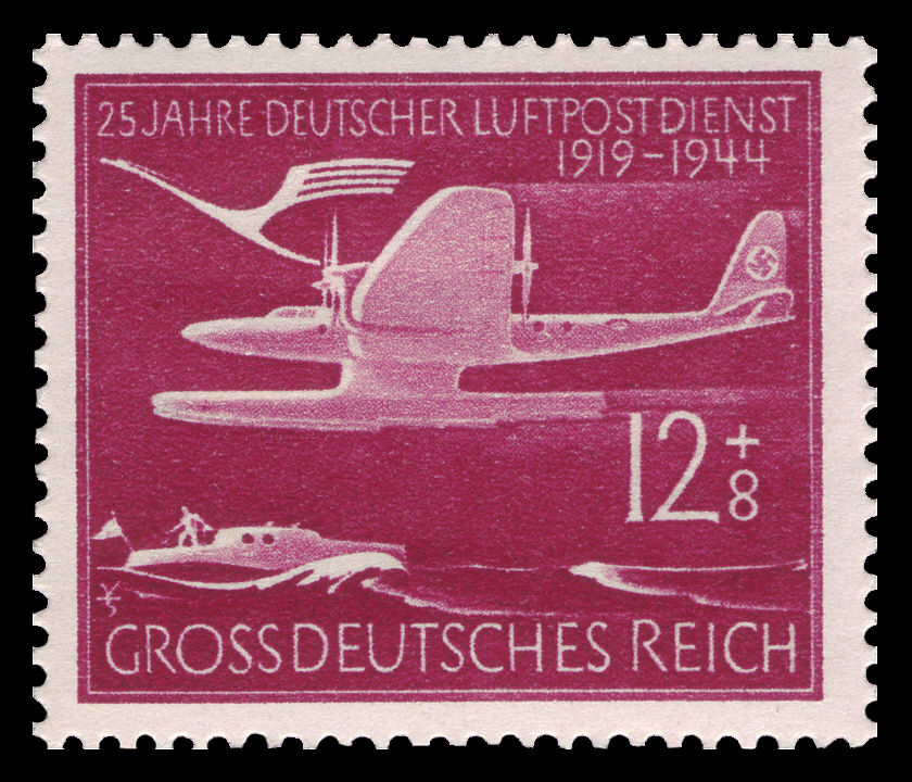 25 years of German Airmail Graphics by Ernst Rudolf Vogenauer Ausgabepreis: 12+8 Pfennig First Day of Issue / Erstausgabetag: 11. Februar 1944 Michel-Katalog-Nr: 867 (Deutsches Reich)